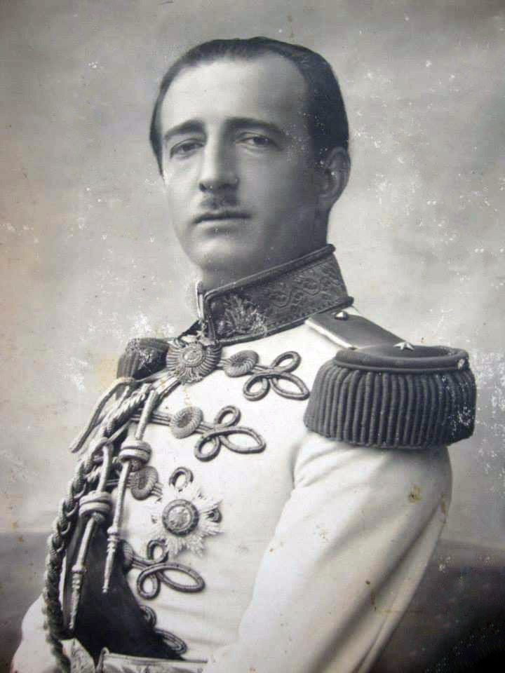 Zog I Skanderbeg III King of the Albanians (1895–1961)